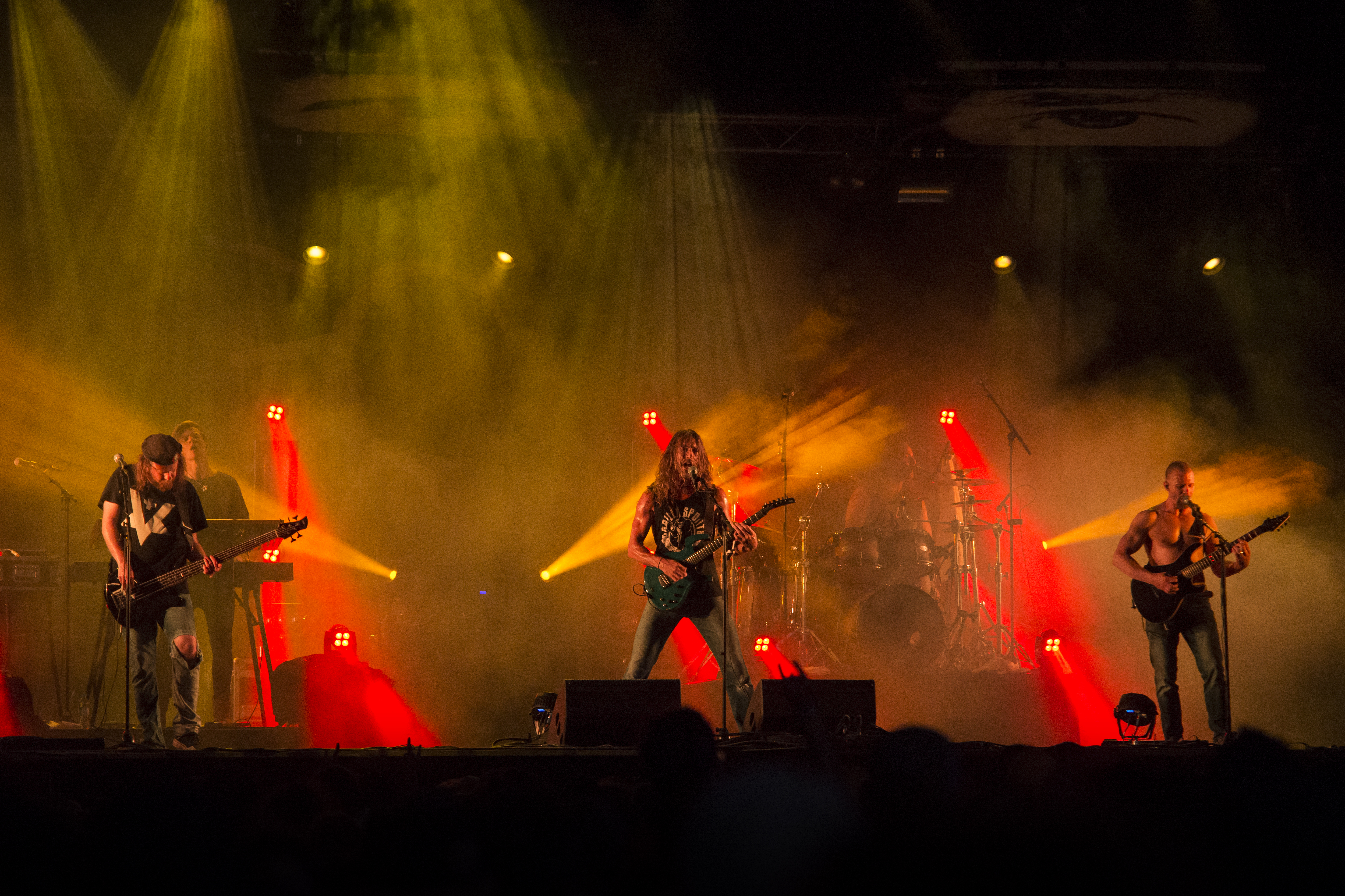 Pain of Salvation show, 2017 Hellfest, France.